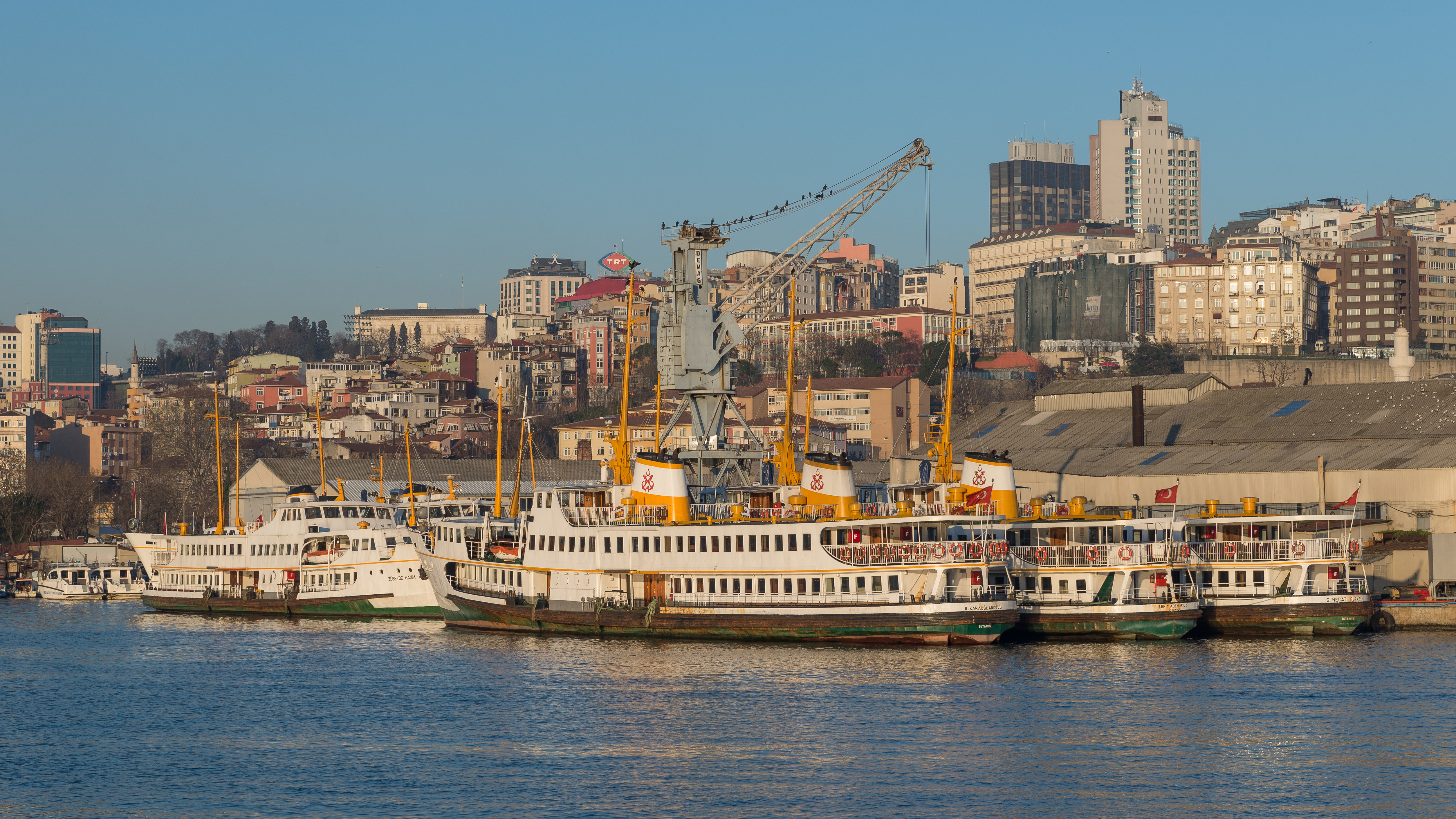 Haliç Tersaneleri (Golden Horn Shipyard), Istanbul.